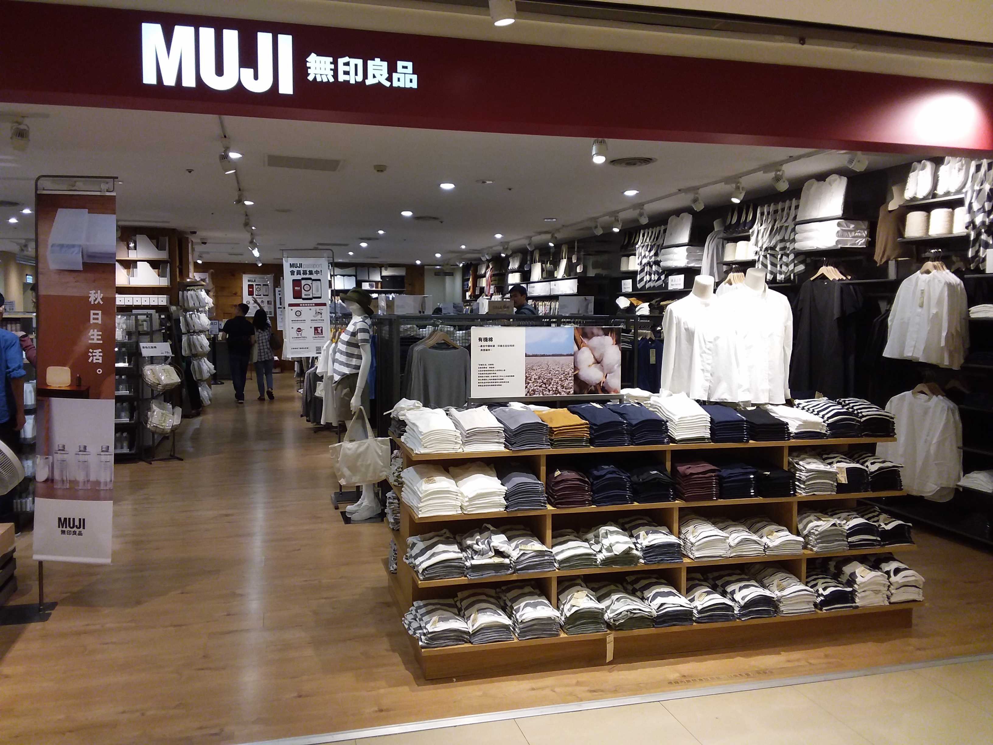 Breeze Taipei Station 2nd Floor mall shop in August 2019